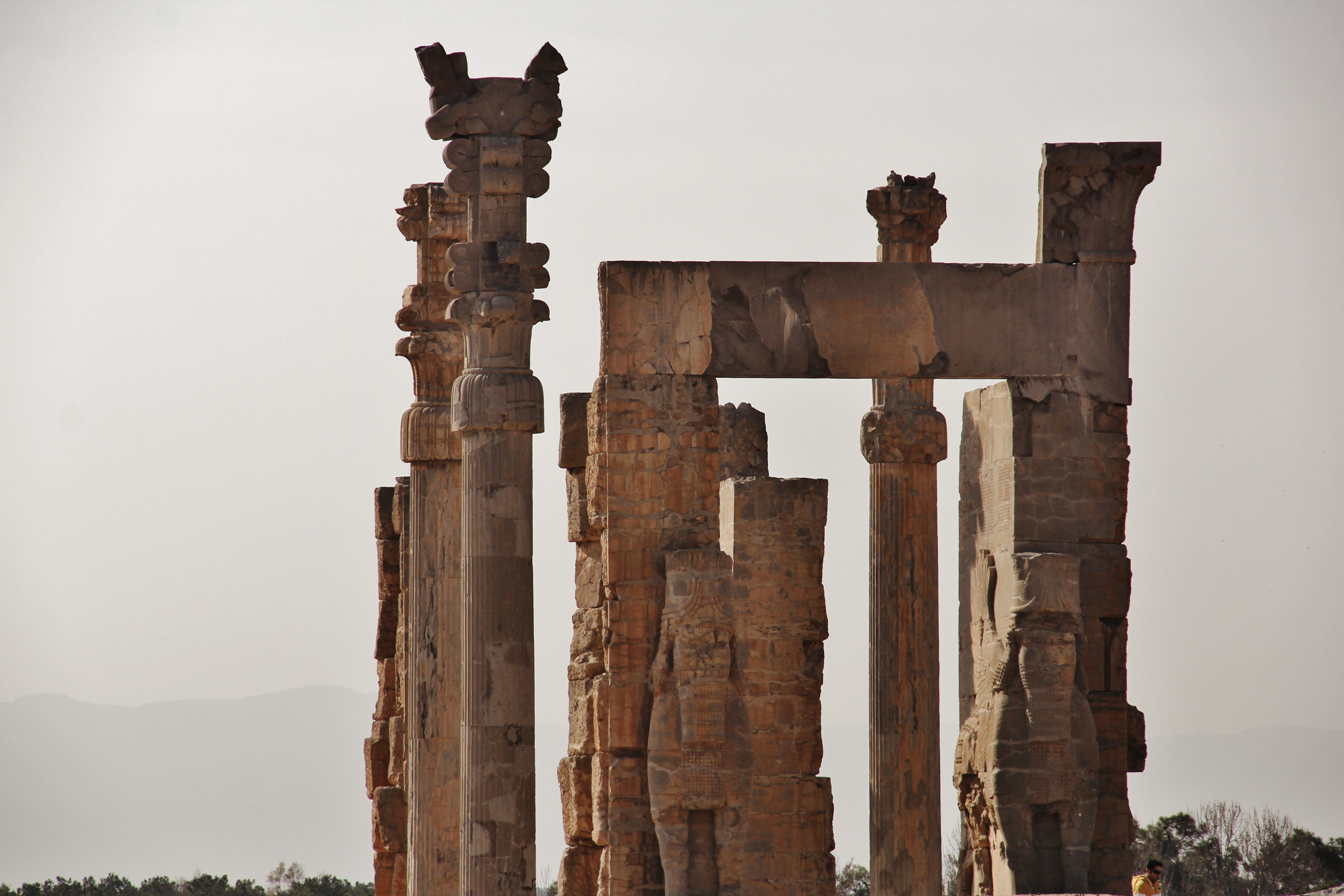 gate of nations2